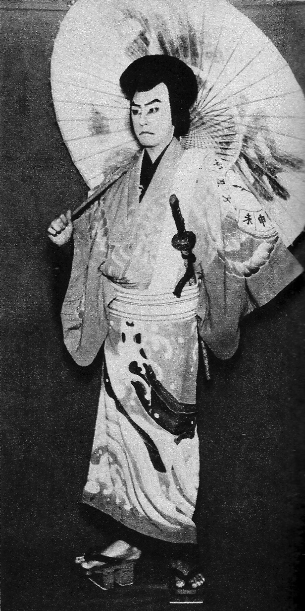 Gatō Kataoka IV as Nippon-daemon in November 1931 Shinjuku Dai-ichi Theater production of Benten-musume Meo no Shiranami